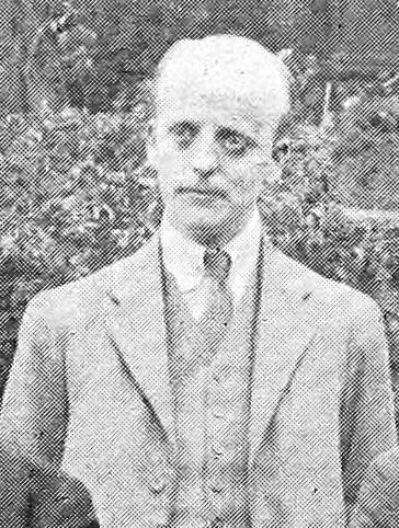 George Talbot, entomologist and curator at the Hill Museum, July 20, in Witley, Surrey.